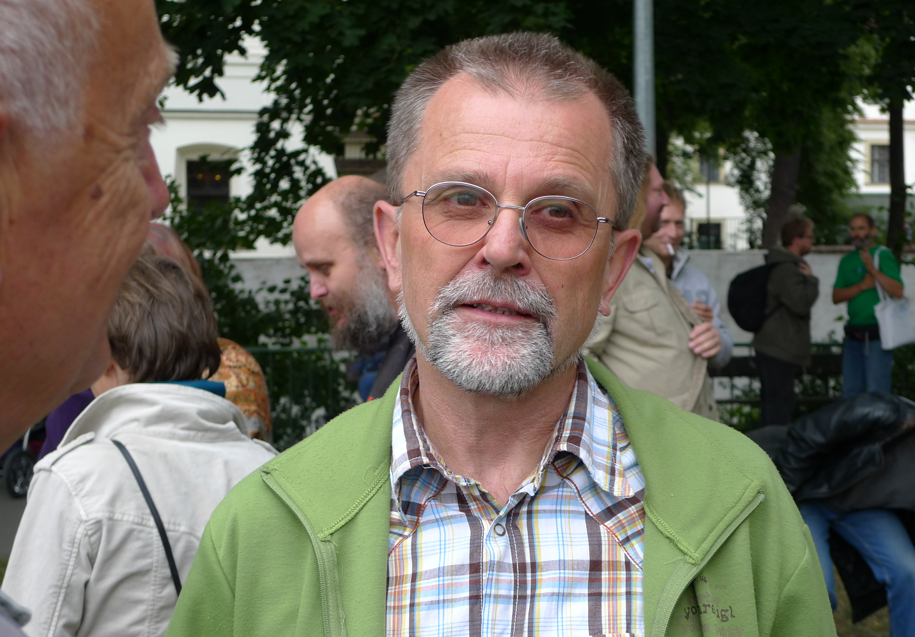 Svatomír Mlčoch, Czech barrister, environmentalist and regional politican